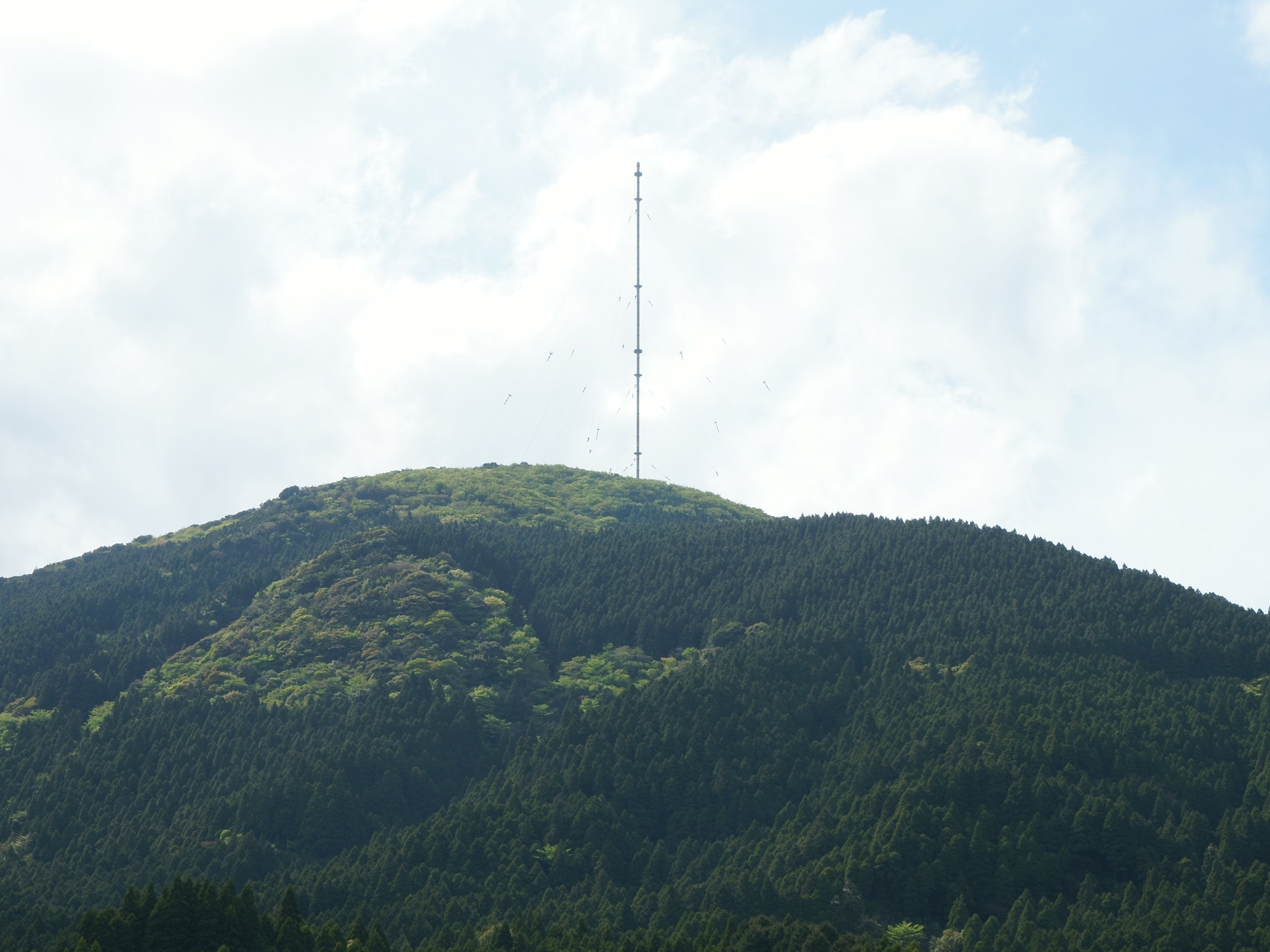 脊振山系の羽金山山頂の電波塔。「はがね山標準電波送信所」のもの。佐賀県佐賀市富士町大字上無津呂付近から。